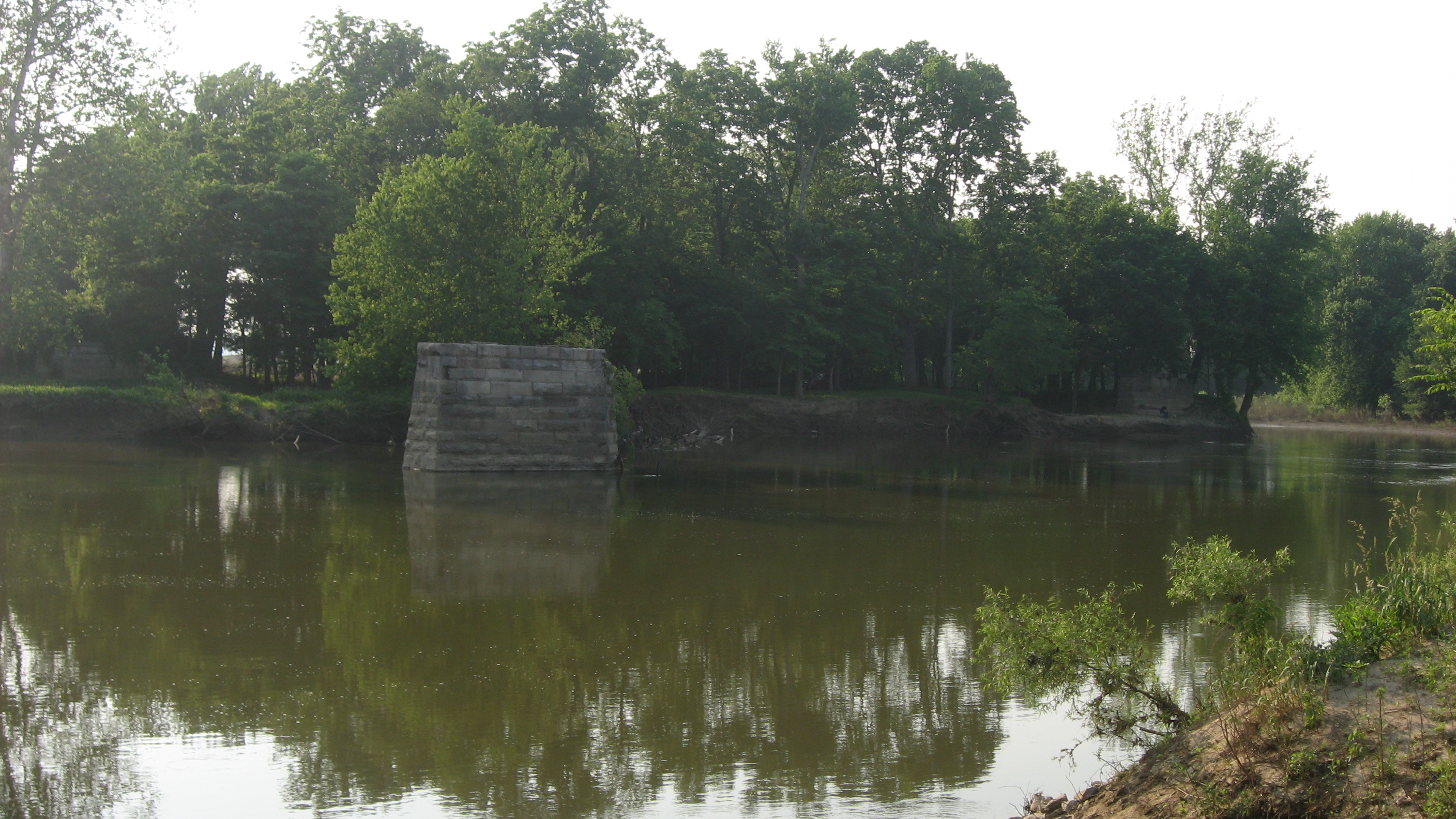 Piers of the Bell Ford Bridge, which once spanned the White River west of Seymour in Jackson County, Indiana, United States. Despite having collapsed, the bridge is listed on the National Register of Historic Places.